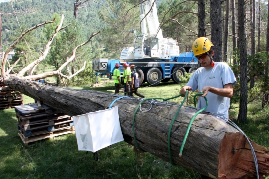 Restoration of Pi de les Tres Branques, July 2015